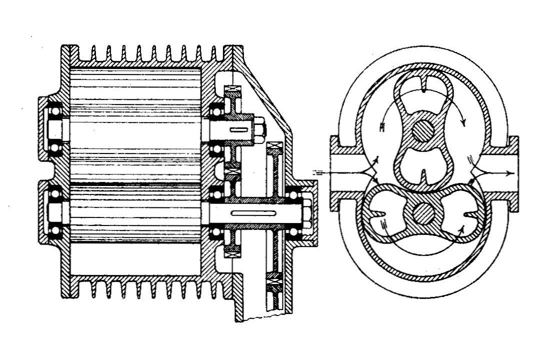 Roots blower (Autocar Handbook, 13th ed, 1935).jpg